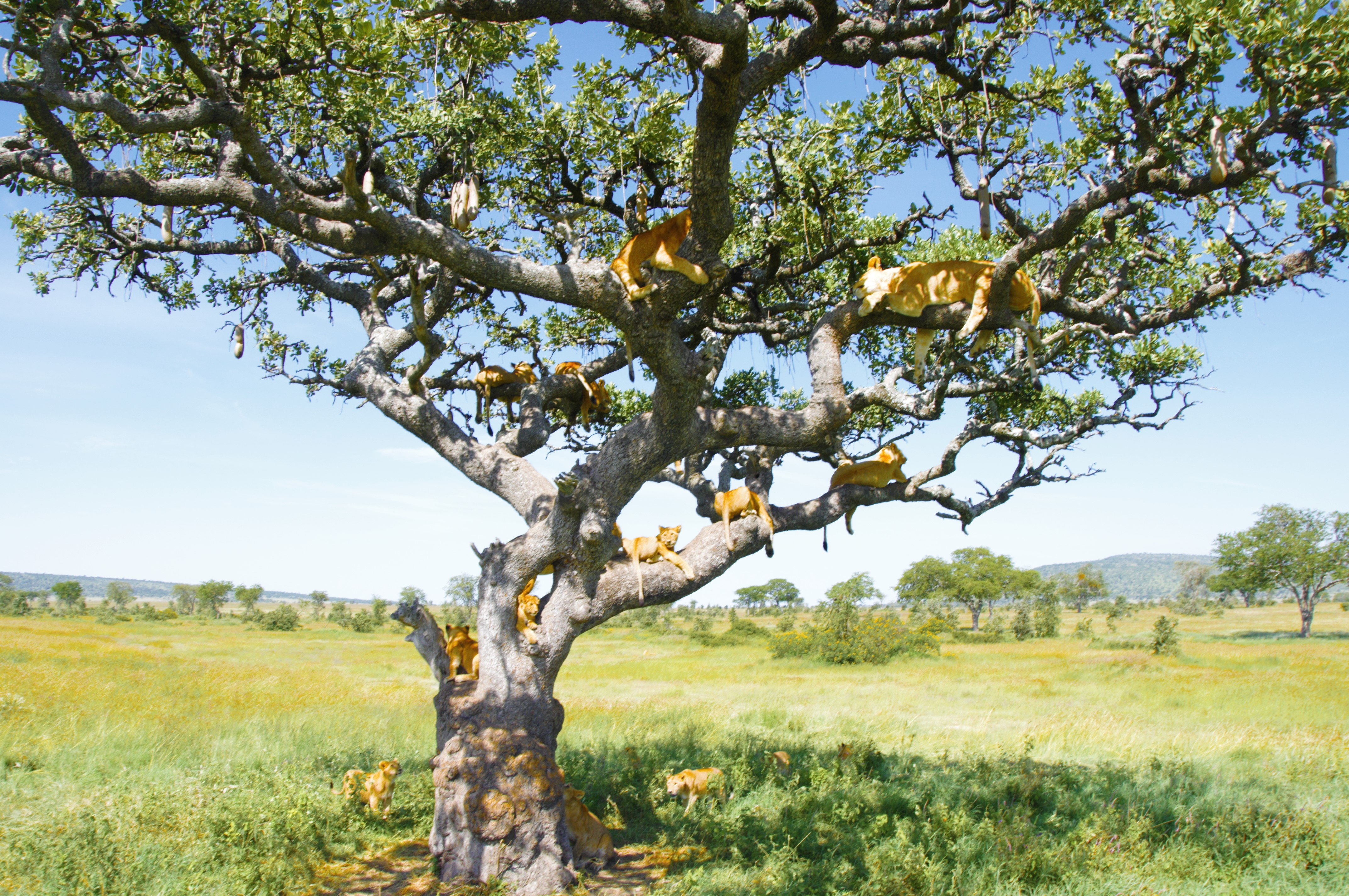 A group of lions on the tree in the Serengeti prairies. This photo has been taken by Prof. Chen Hualin.